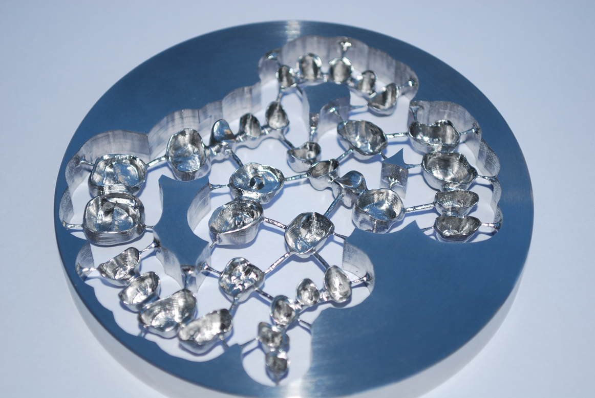 Chrome-cobalt disc with dental bridges and with crowns to be placed on dental implants or prepared teeth. Was machined using WorkNC Dental, the CAD/CAM software from Sescoi.